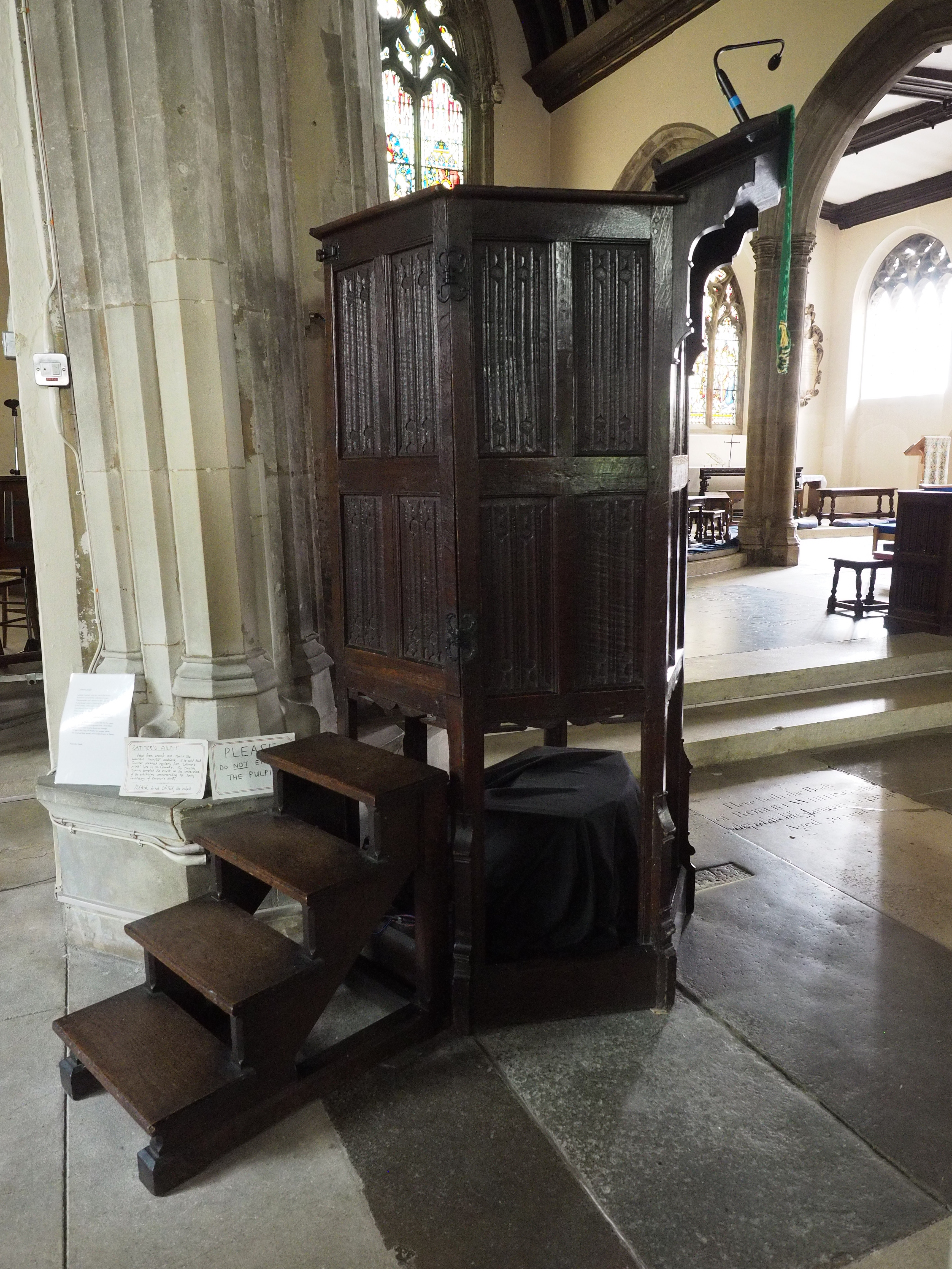 Pulpit in the church of St Edward King and Martyr, Cambridge, used by Hugh Latimer (c.1487–1555) to preach during the English Reformation. The pulpit dates from about 1510.